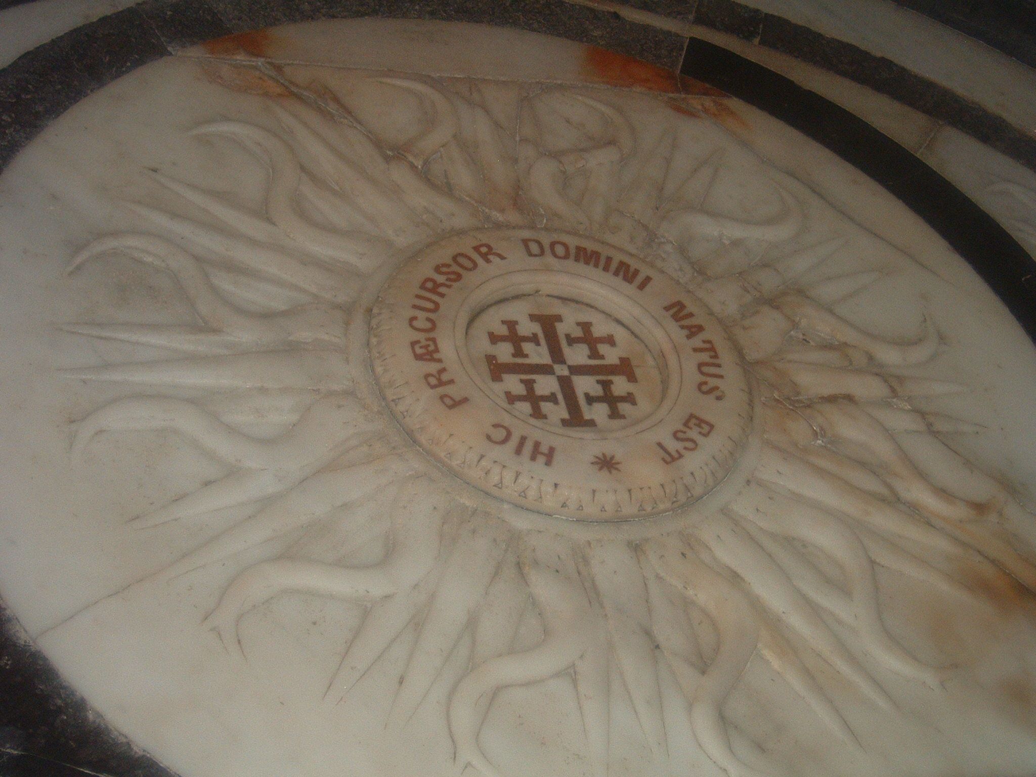 Grotto of the Birth of St John the Baptist in Ain Karem, Israel